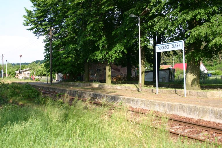 Suchacz - railway station.